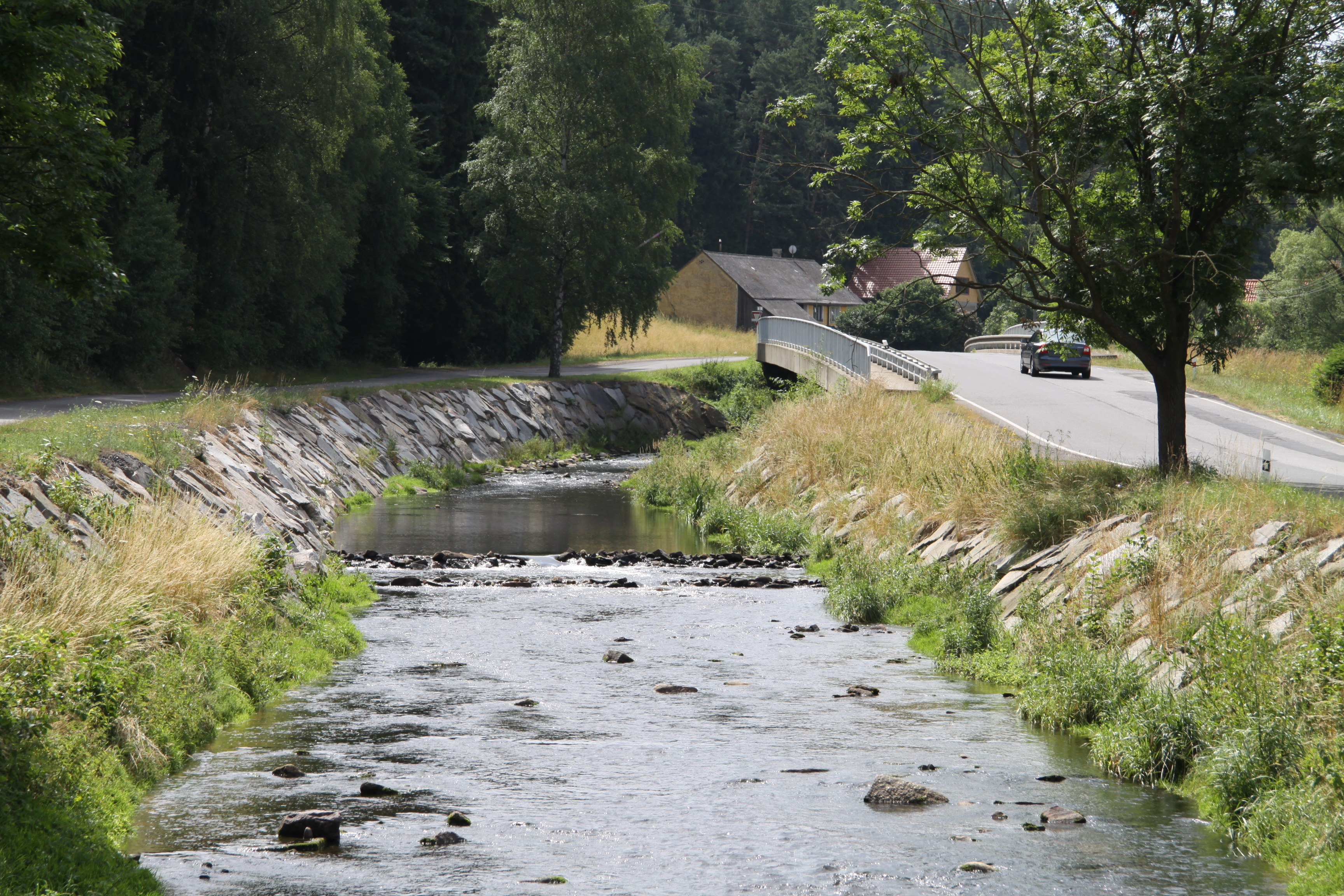 Čenkov village in Příbram District with Litavka River, Czech Republic.